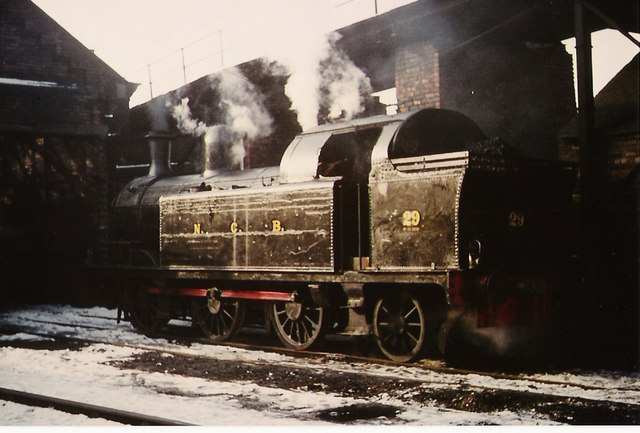 No 29 ready for duty at Philadelphia NCB shed Seen at the now demolished NCB sheds, this locomotive was later rescued for preservation and now operates on the North York Moors Railway.